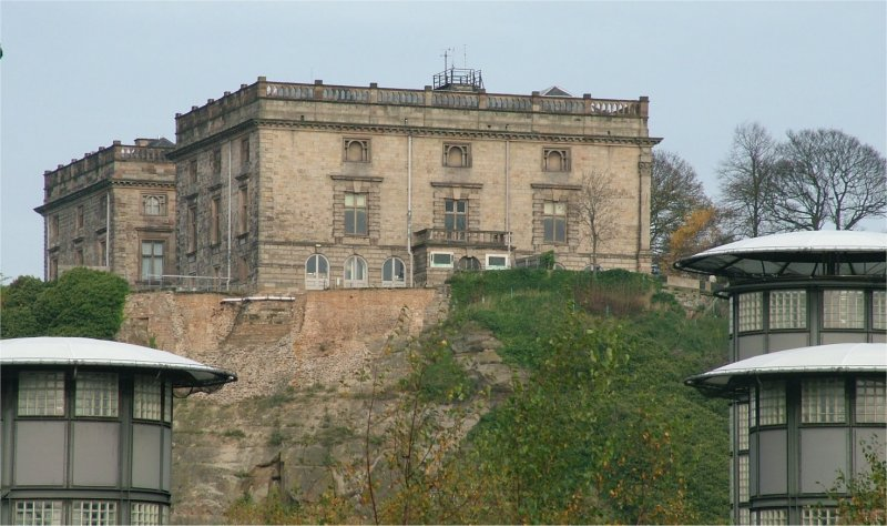 Nottingham Castle - Nottingham - England - 2004-11-04.jpg Photo by Tagishsimon, 4th November 2004. The towers in the foreground belong to the Inland Revenue buildings, located near Castle Marina. The design by Michael Hopkins retains a vista through the site to the castle. The photograph shows the medieval castle foundations revealed following the landslip on Christmas Day 1996. These have subsequently been obscured by work in 2005 to reinstate the terrace around the Ducal Mansion. --Lang rabbie 00:42, 17 February 2007 (UTC)